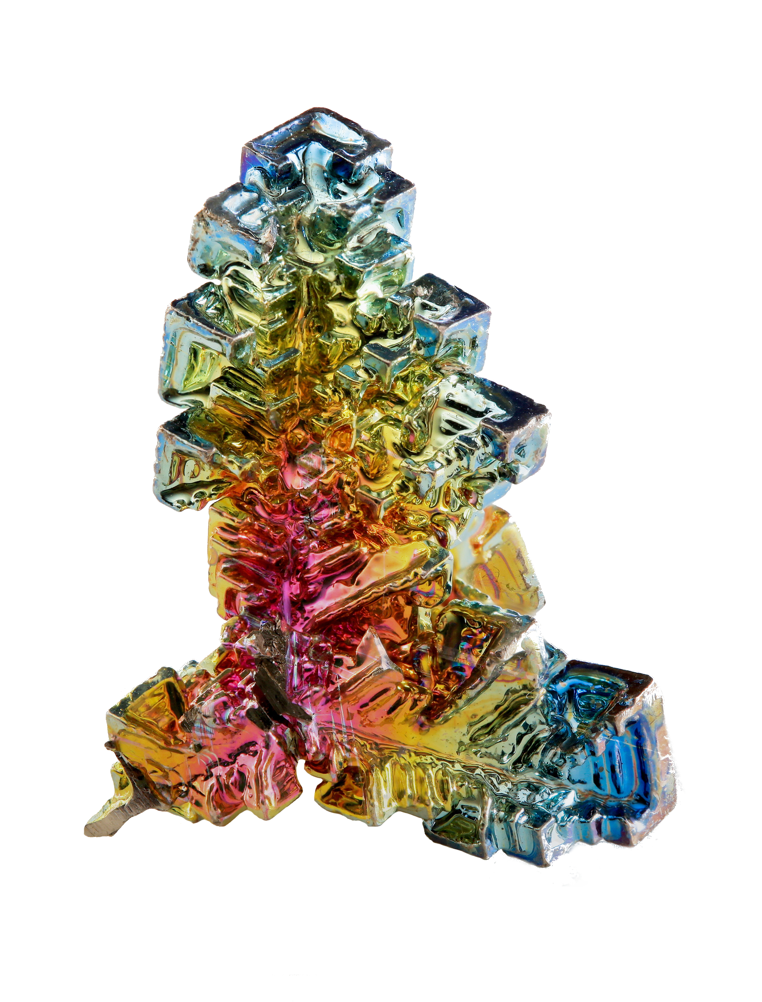 The chemical element bismuth as a synthetic made crystal. The surface is an iridescent very thin layer of oxidation.